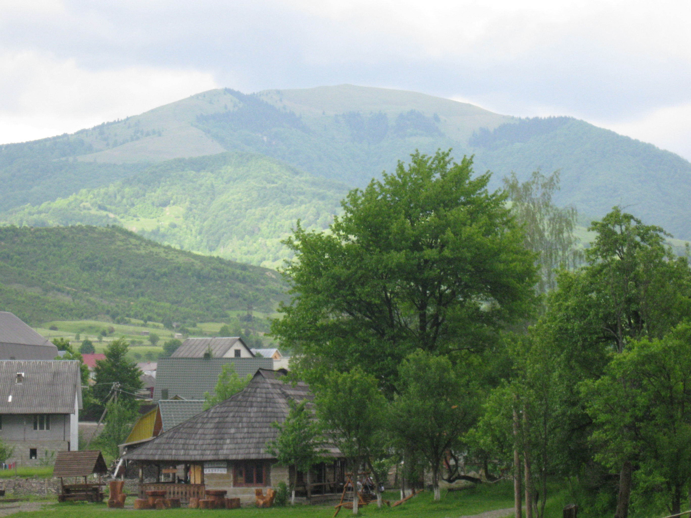 Mount Darvajka